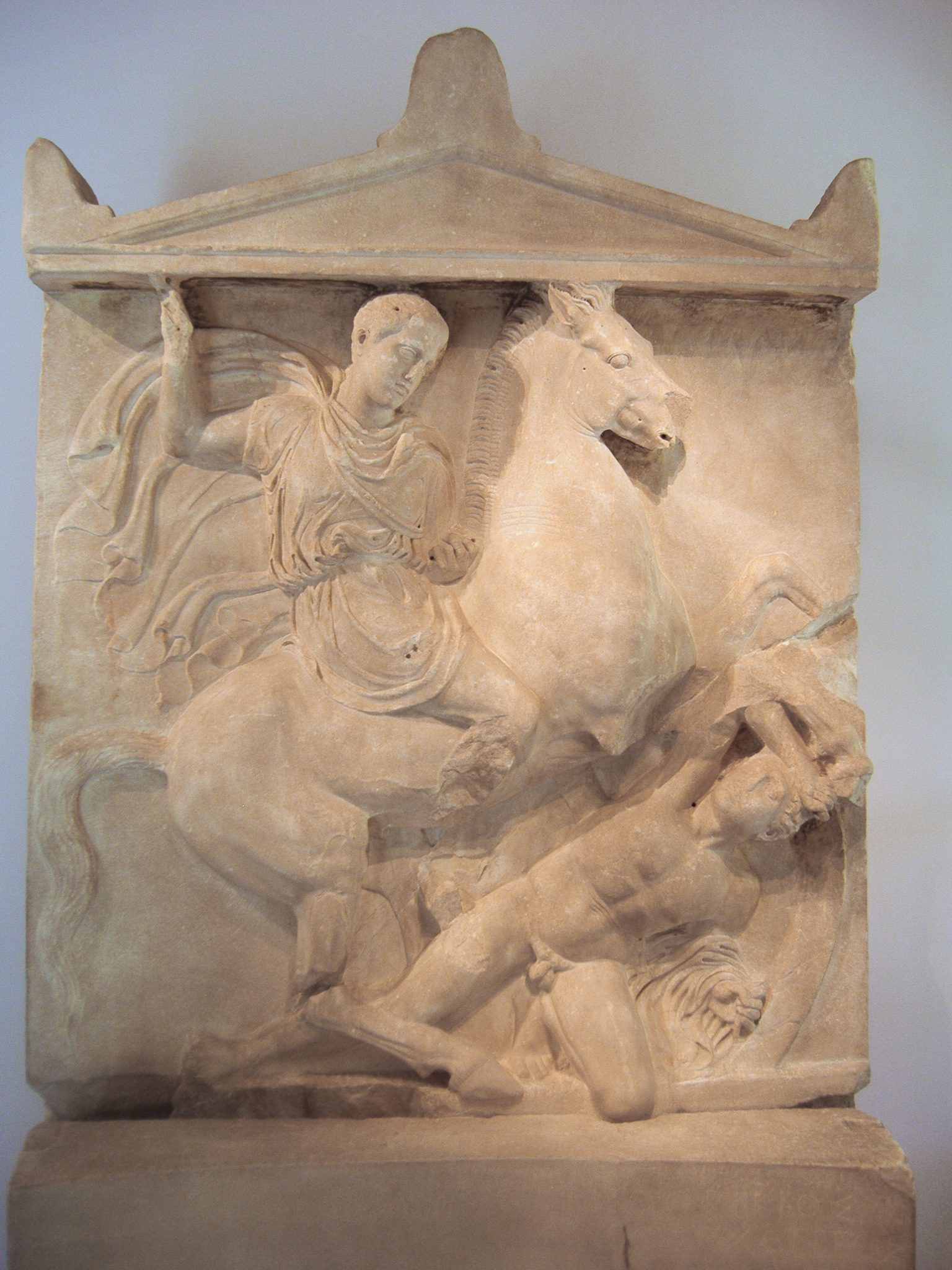 Grave relief of Dexileos, son of Lysanias, of Thorikos. (ca 390 BC) Archaeological Museum of Kerameikos (Athens). Επιτύμβιο ανάγλυφο του Δεξίλεω, γιου του Λυσανία, από τον Θορικό. (περ. 390 π.Χ.) μουσείο του Κεραμεικού, Αθήνα